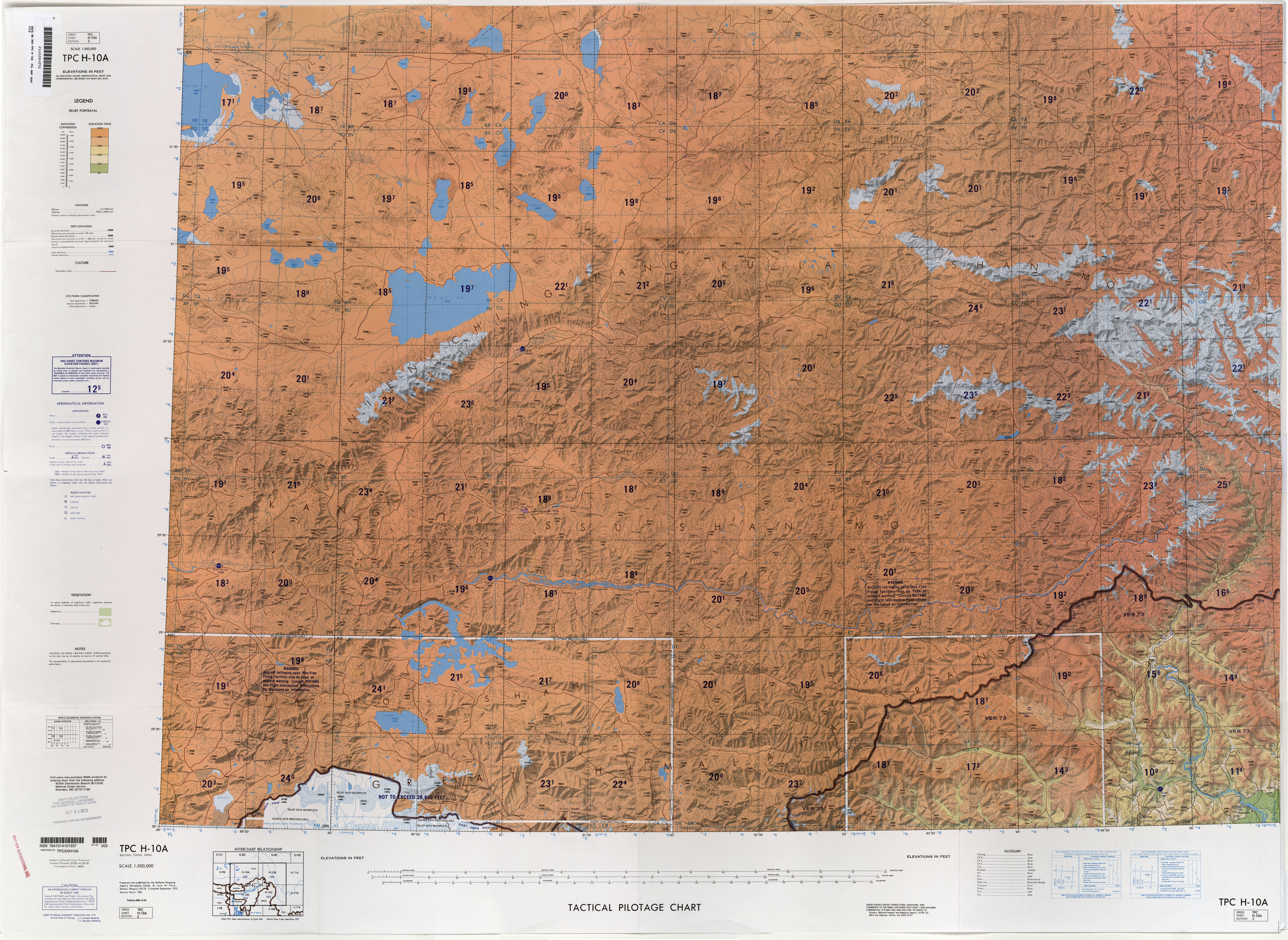 Tactical Pilotage Chart Series - World 1:500,000 Scale